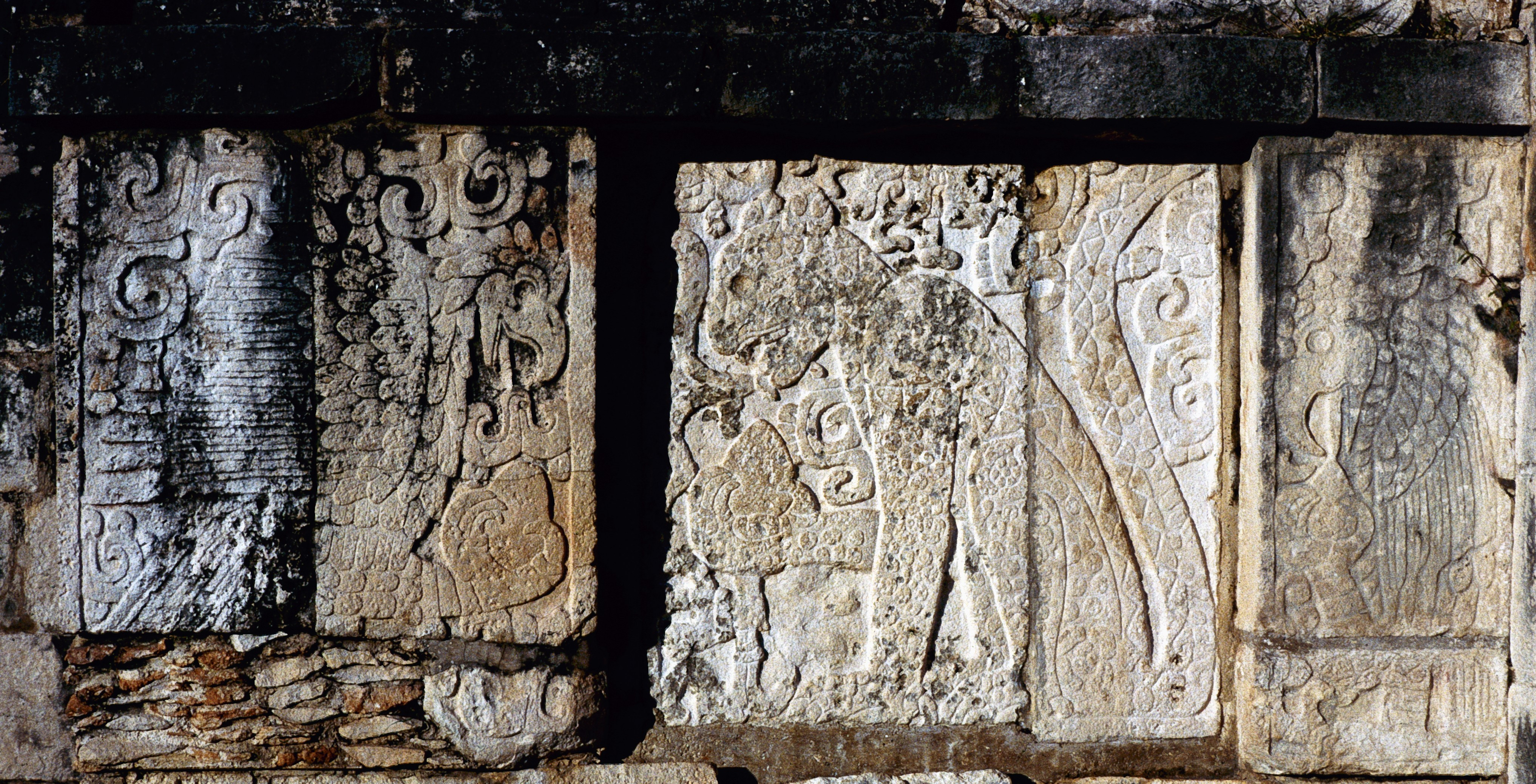 Chichen Itza, Yucatan, Mexico: Platform of the Eagles and Jaguars